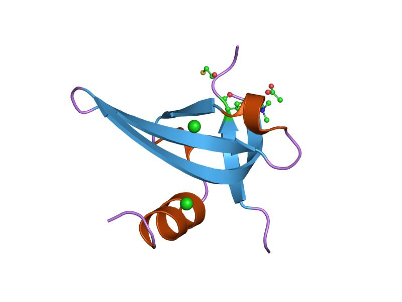 Cartoon representation of the molecular structure of protein registered with 1pfb code.